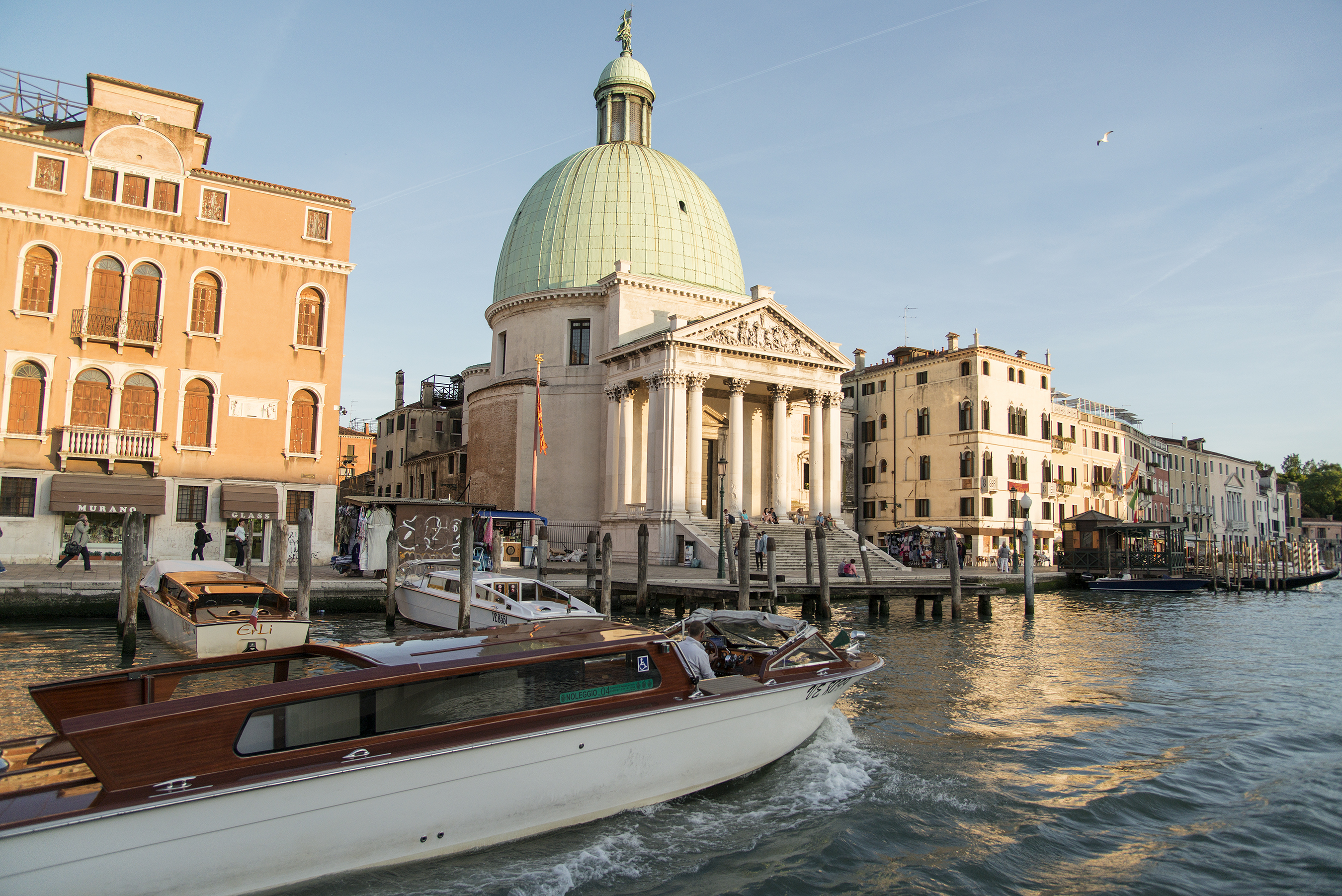 Water taxi near the train station on the Grand Canal in Venice, Italy